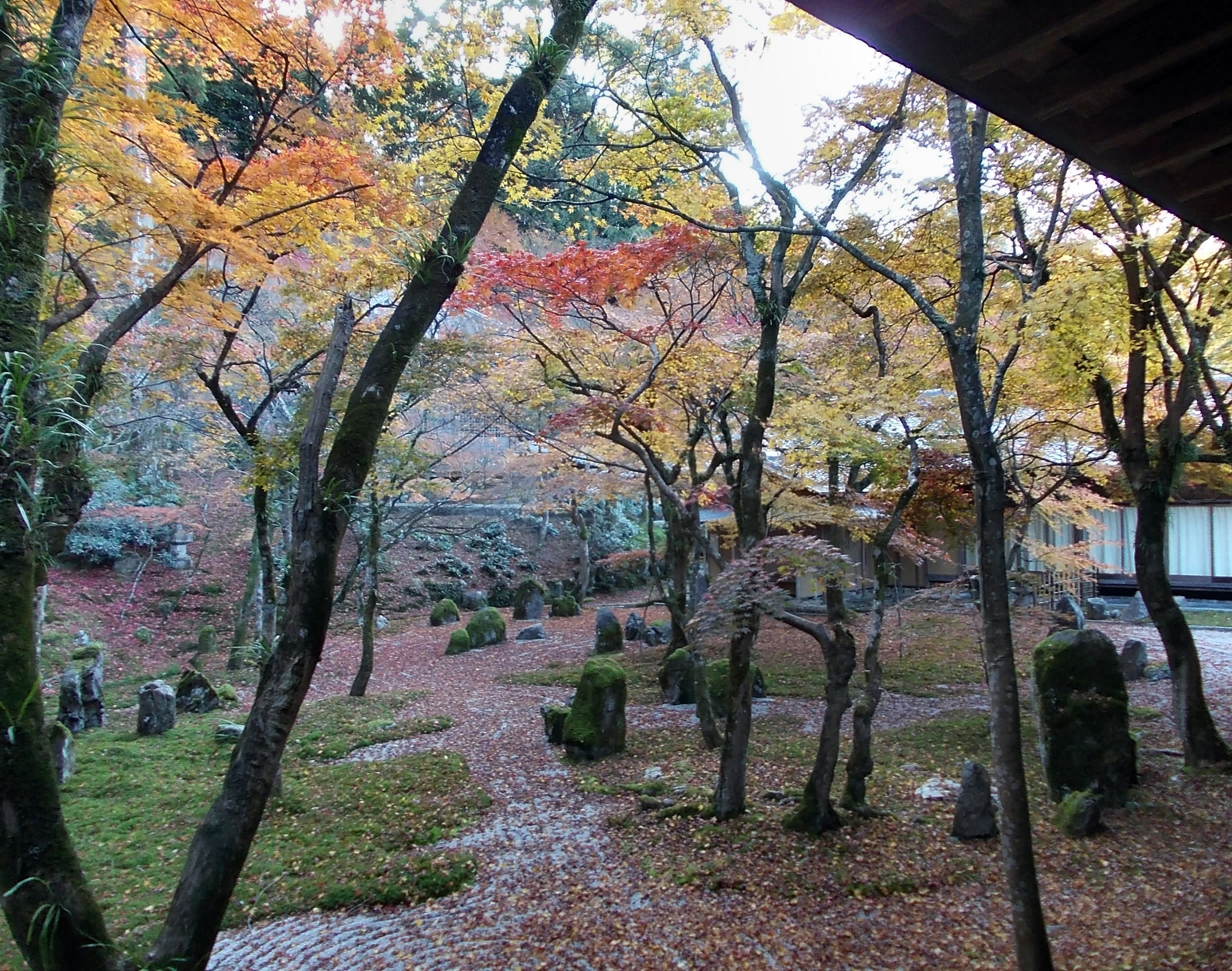 Autumn colours at Komyozenji Temple, Daizaifu, Fukuoka, Japan. Taken on 20 November 2012.